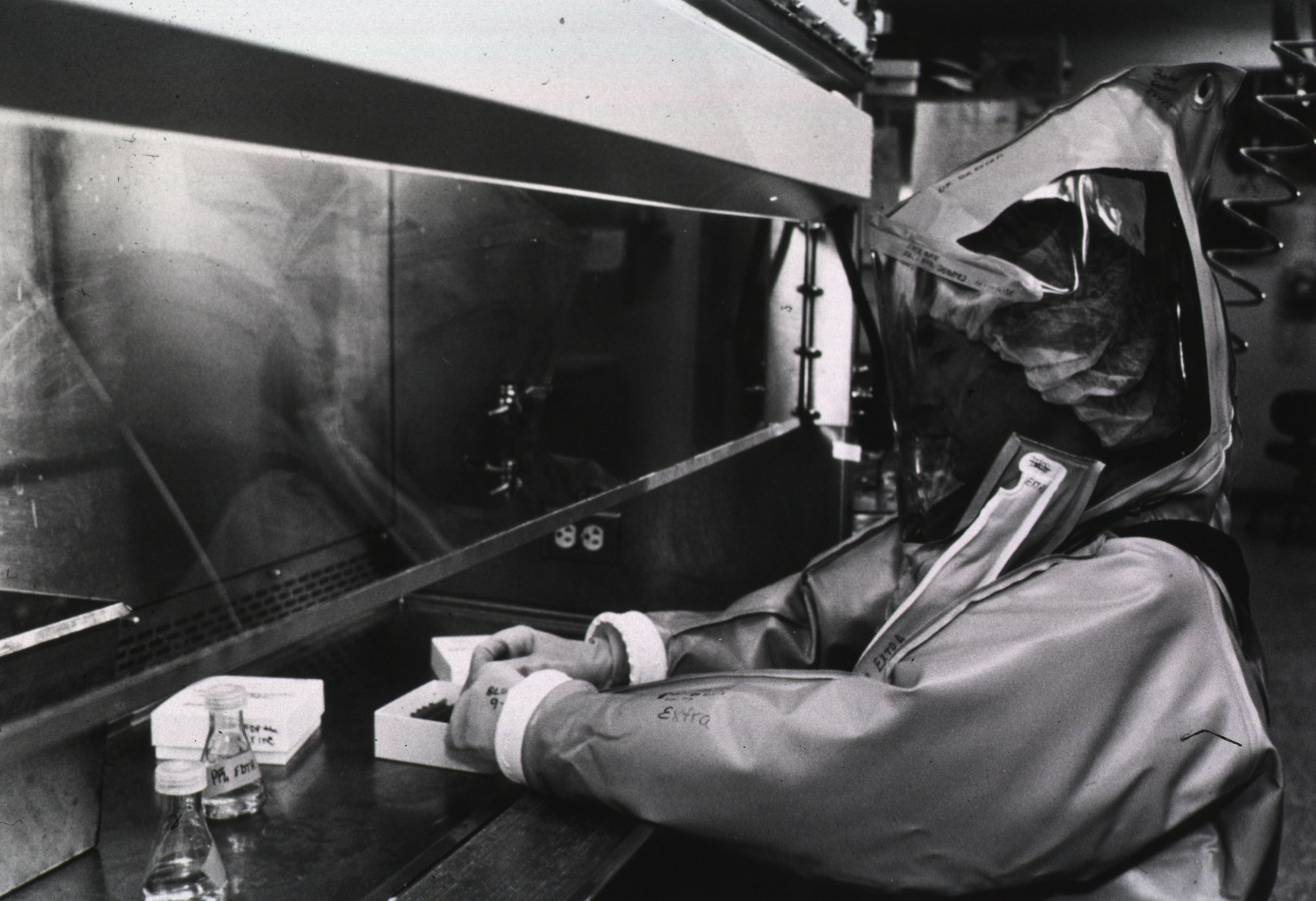 "Researchers, such as this man in the Centers for Disease Control and Prevention's new maximum containment virology laboratory, use the most advanced technology available to study dangerous organisms like the Lassa, Machupo, Ebola, and AIDS viruses that cause deadly diseases for which no cure or vaccine exists"